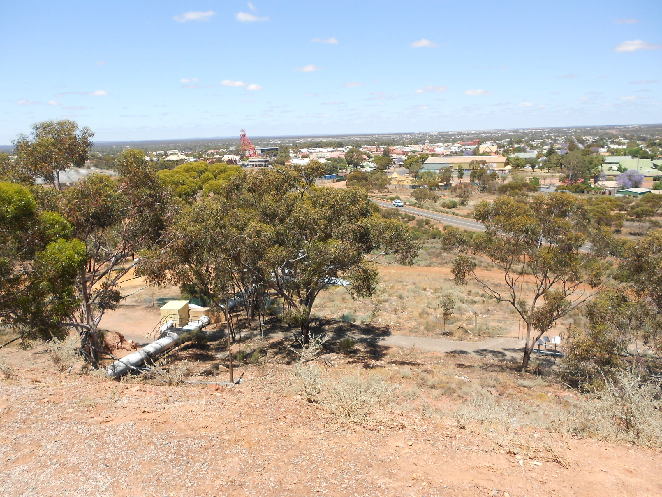 Mt Charlotte